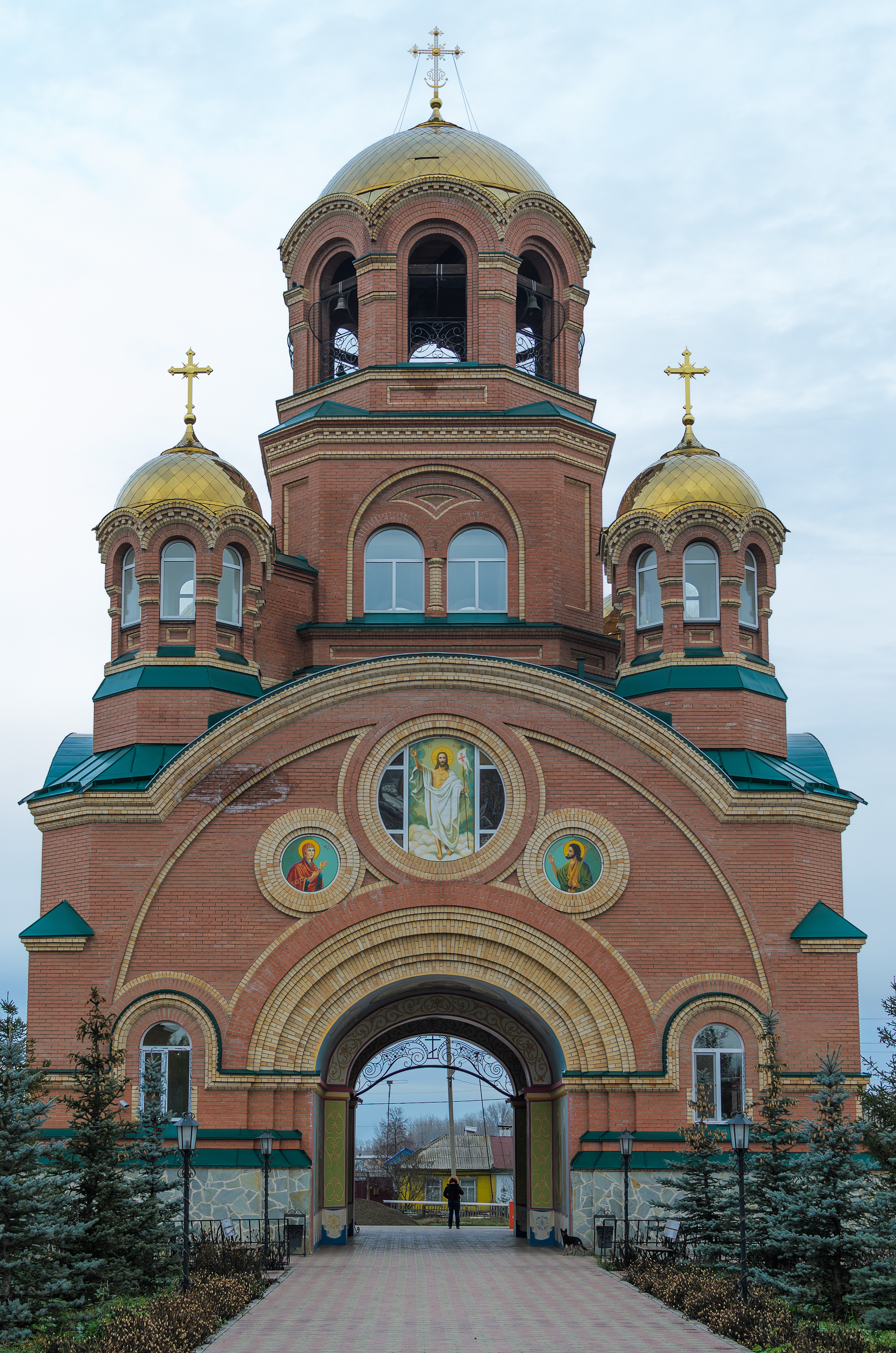 Свято-Троицкая обитель милосердия